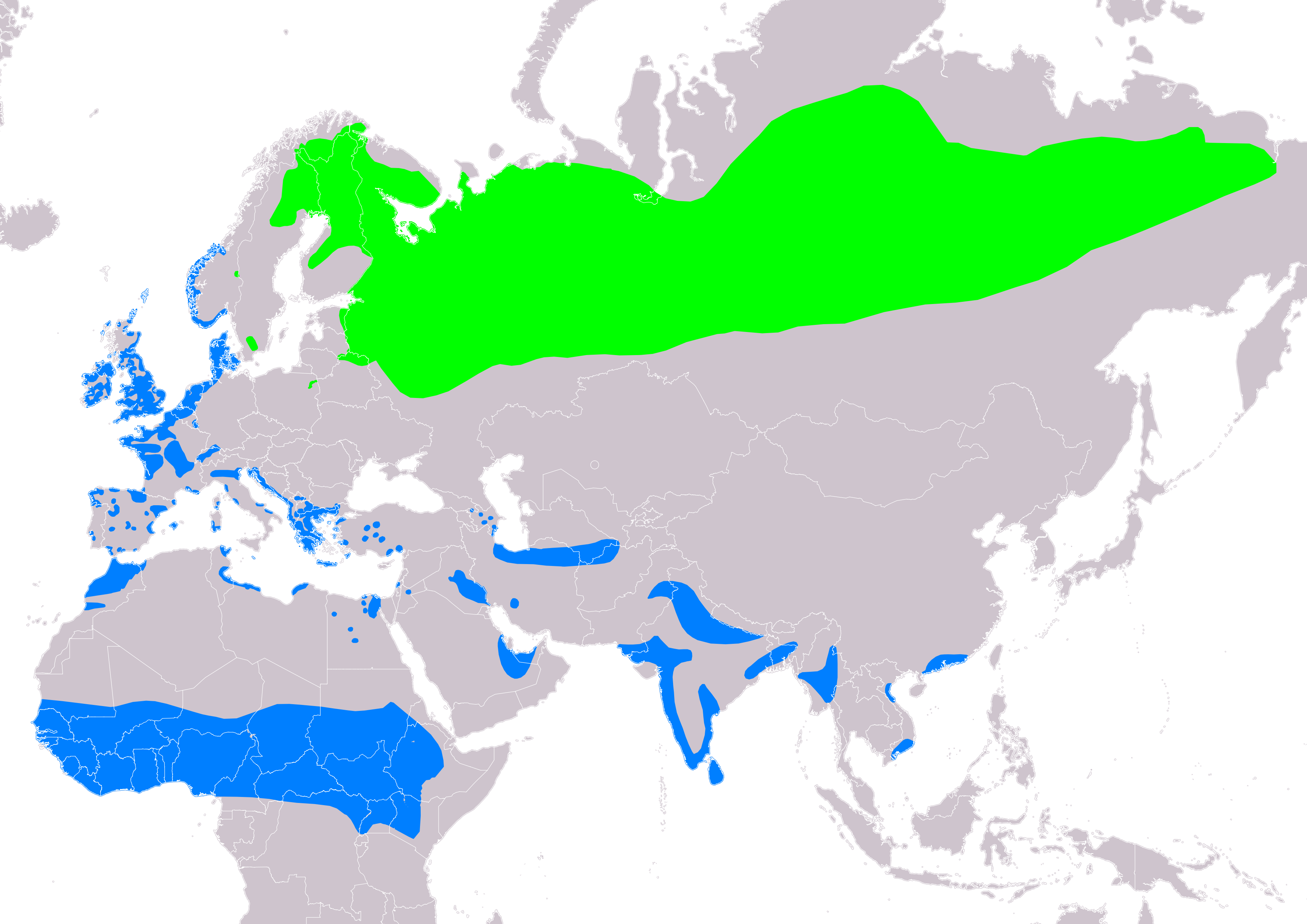 Distribution map of jack snipe (Lymnocryptes minimus) according to IUCN version 2019-2 ; key: Legend: Extant, breeding (#00FF00), Extant, non-breeding (#007FFF)